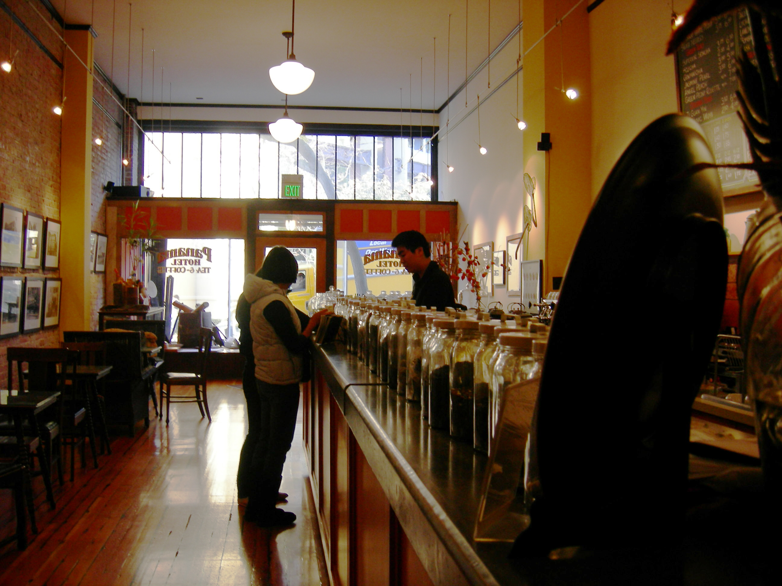 The lobby and lounge of the Panama Hotel, International District, Seattle, Washington are now a coffeehouse. The building is listed on the National Register of Historic Places.